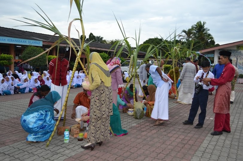 PONGGAL 7